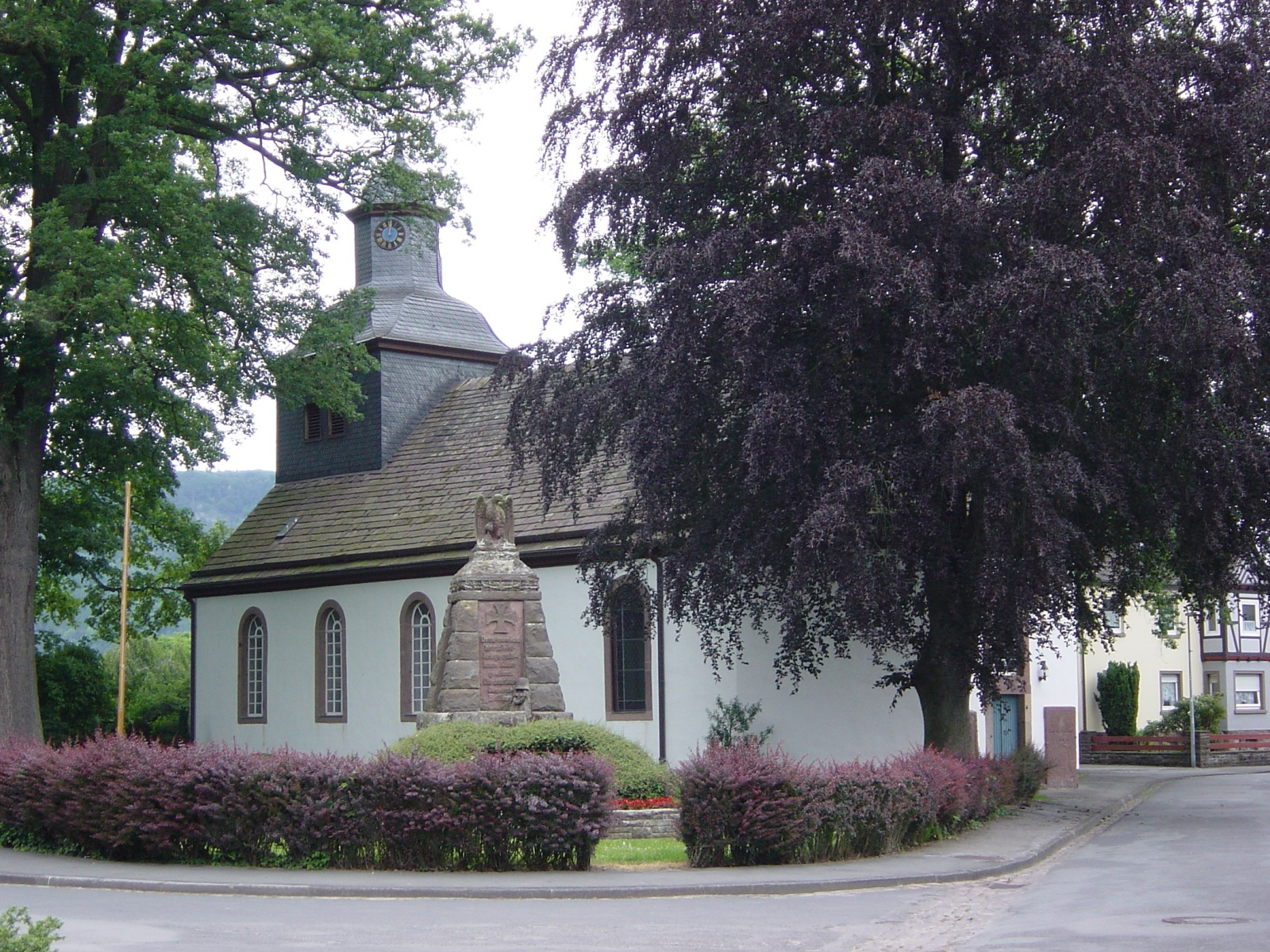 Lutheran Redeemer Church and war memorial in Boffzen (Germany)